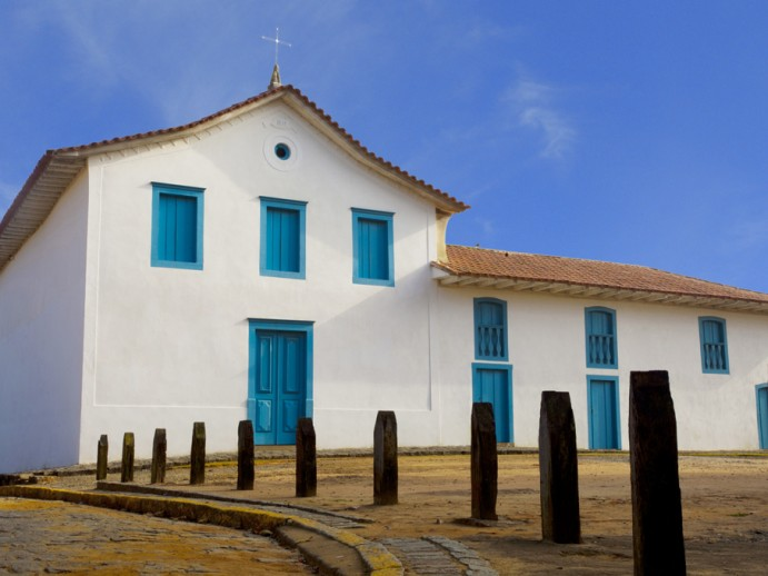 Igreja Nossa Senhora da Escada